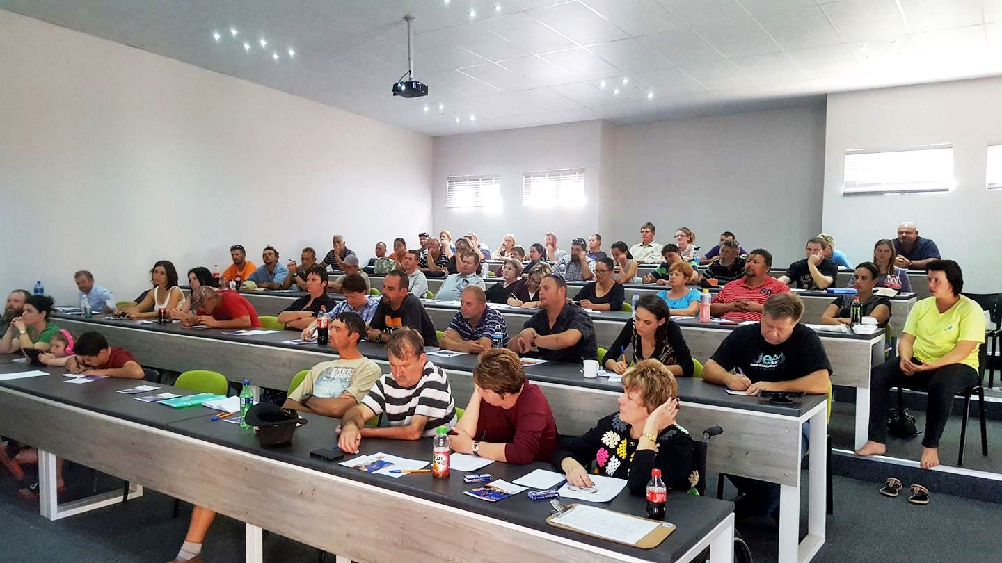 Orientation-type meeting for new residents, Orania